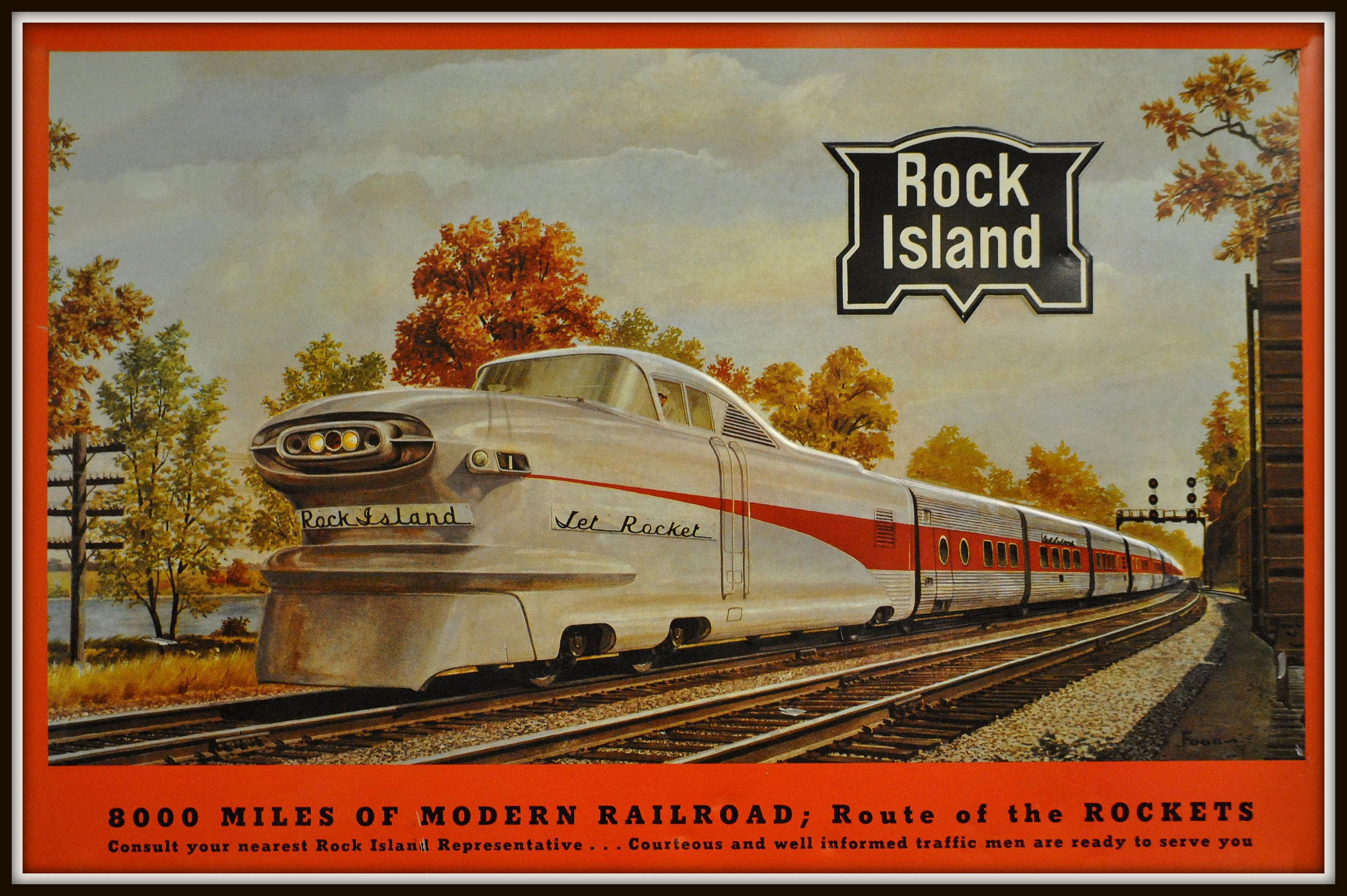 The Chicago Rock Island and Pacific Railway (CRI&P), also known as the Rock Island or the Rock, was a class 1 railroad running west, southwest and northwest from Chicago. It had trackage in Arkansas, Colorado, Illinois, Iowa, Kansas, Louisiana, Minnesota, Missouri, Nebraska, New Mexico, Oklahoma, South Dakota, Tennessee, and Texas. Major lines included Chicago to Denver and Colorado Springs and Chicago to Tucumcari, New Mexico where it connected with the Southern Pacific for trains to Los Angeles and cars to San Diego. Other through routes included Minneapolis to Houston, and service to major cities such as Kansas City, Dallas, Fort Worth, St. Louis and Memphis. In the 30's the Rock Island introduced a series of early streamlined diesel-electric powered passenger trains, the "Rocket" series. The Rocky Mountain Rocket was one of the first, from Chicago and to Denver and Colorado Springs. The Rock took the luxury train, the Golden State, from Chicago to Tucumcari, New Mexico, where it connected with the Southern Pacific for the run to Los Angeles. The Rock Island dieselized very early, and all steam locomotives were retired by July 1940. In 1953 passenger service was continued, for a short while, after Amtrak took over the national passenger rail service in 1971. After long and unsuccessful attempts, the Rock Island was unable to obtain a merger partner during the merger period, beginning in the 1960's. The plant and equipment deteriorated during this time and the Rock went back into receivership in 1971, and closed down in 1980. Scraps of the railroad exist today, operated by various carriers, This was on display in the McDonalds restaurant in Chicago Union Station